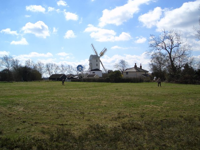 The green, and the windmill. Windmill now in the care of English Heritage